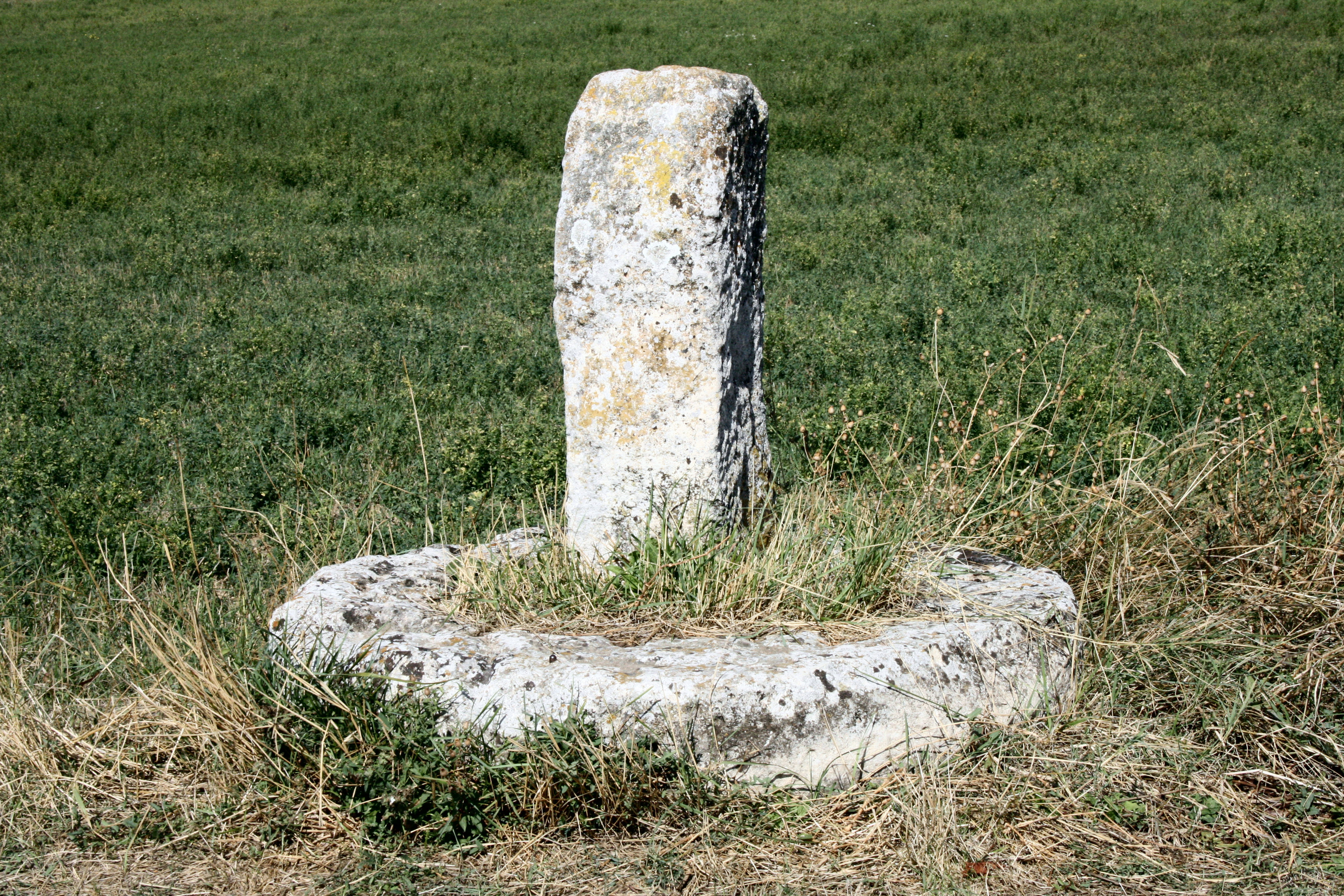 The "borne de Tavernoure" serves as a boundary between the municipalites of Mane, Dauphin and Saint-Michel. This milestone may have marked the place of a roman road station along the Via Domitia.